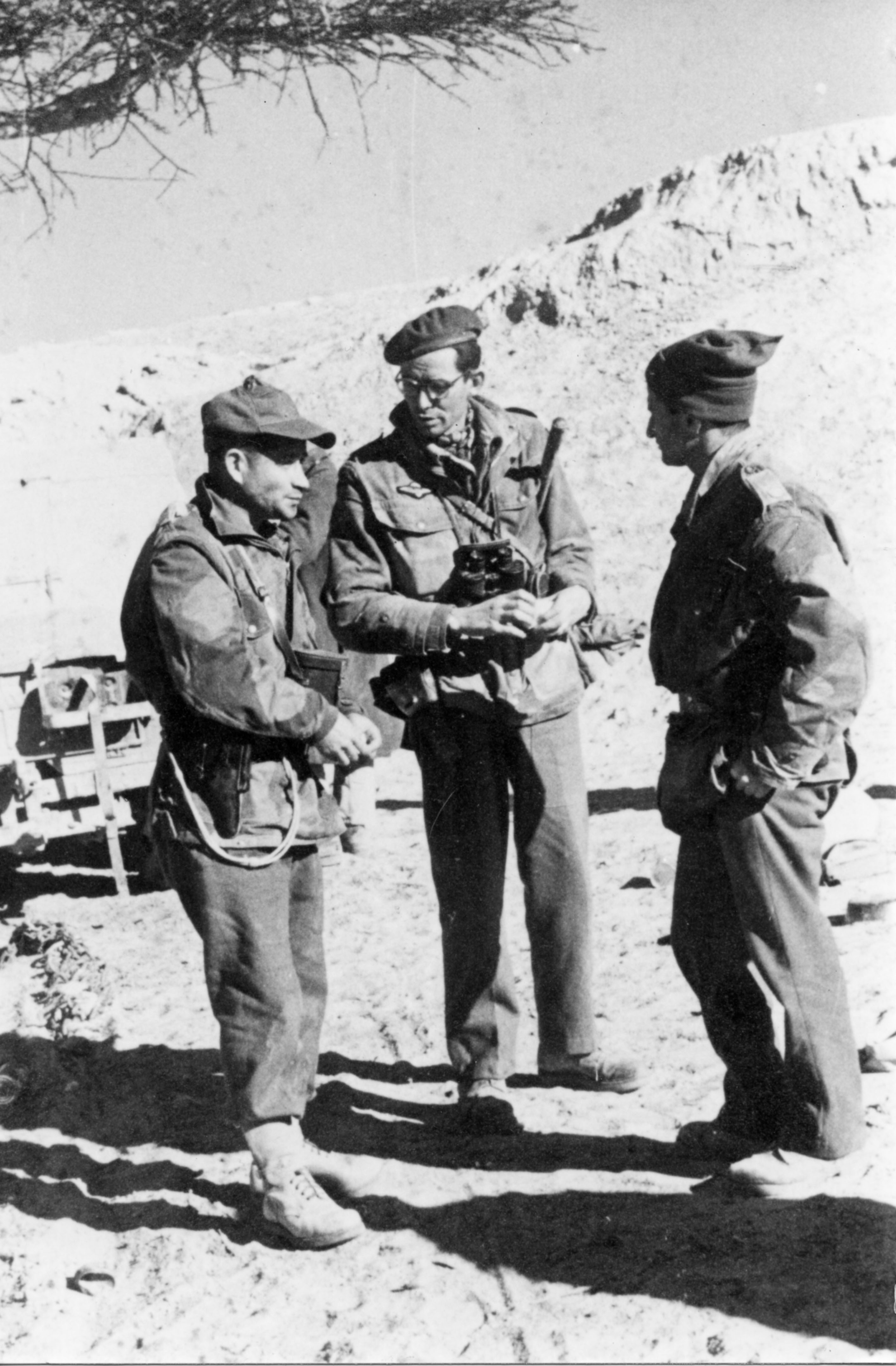 The Palmach, Israel Defense Forces